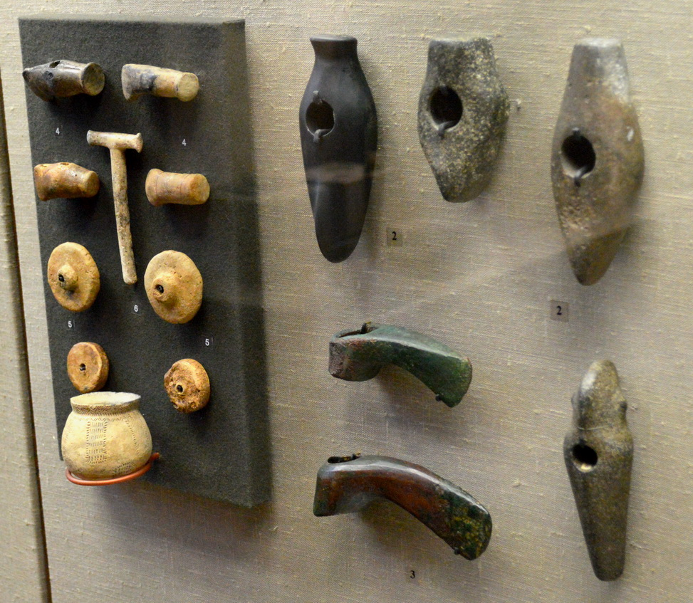 Forest zone of european part of Russia. Fatyanovo–Balanovo cultures. First half of 2 mill. BC. Left - models of battle axes (clay, Chuvashiya, Balanovsky burial ground), models of wheels (clay, Chuvashiya, Balanovsky burial ground), hammer-headed pin (bone, Moscow region, v. Pereschapovo). Right - shafthole axes (stone, Chuvashiya, Balanovsky burial ground; Yaroslavl region, Fatyanovsky burial ground), sleeved axes (bronze, Kostroma region, v. Gorki; Moscow region, chance find).